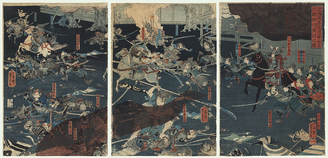 Japanese Edo period wood block print of the famous night attack on Horikawa Castle, where Minamoto no Yoshitsune sought refuge from his brother Yoritomo, who eventually killed him in his quest to become absolute ruler of Japan. The scene is one of chaos as samurais clash on foot and on horseback, battling with swords and naginata as smoke and flames engulf the palace. In the center, a young warrior stands atop a fallen enemy, gripping his weapon with both hands as he faces the attackers. At right, a general in a horned battle helmet directs his men with a tasseled command baton. The ground is littered with broken arrows, standards, and abandoned weapons. A dramatic night scene with wonderful detail in the expressive faces and setting.